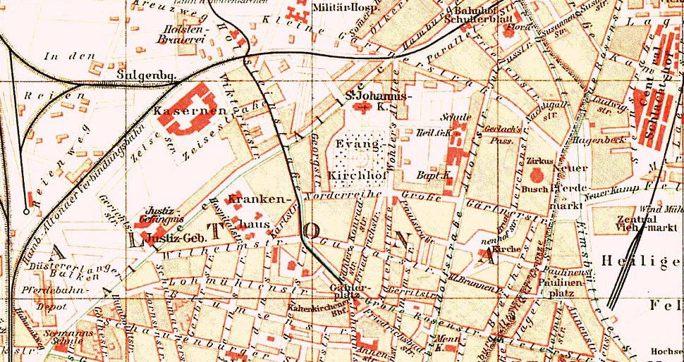 Area around the former Gähler Square (Gählerplatz) in Altona, Germany.